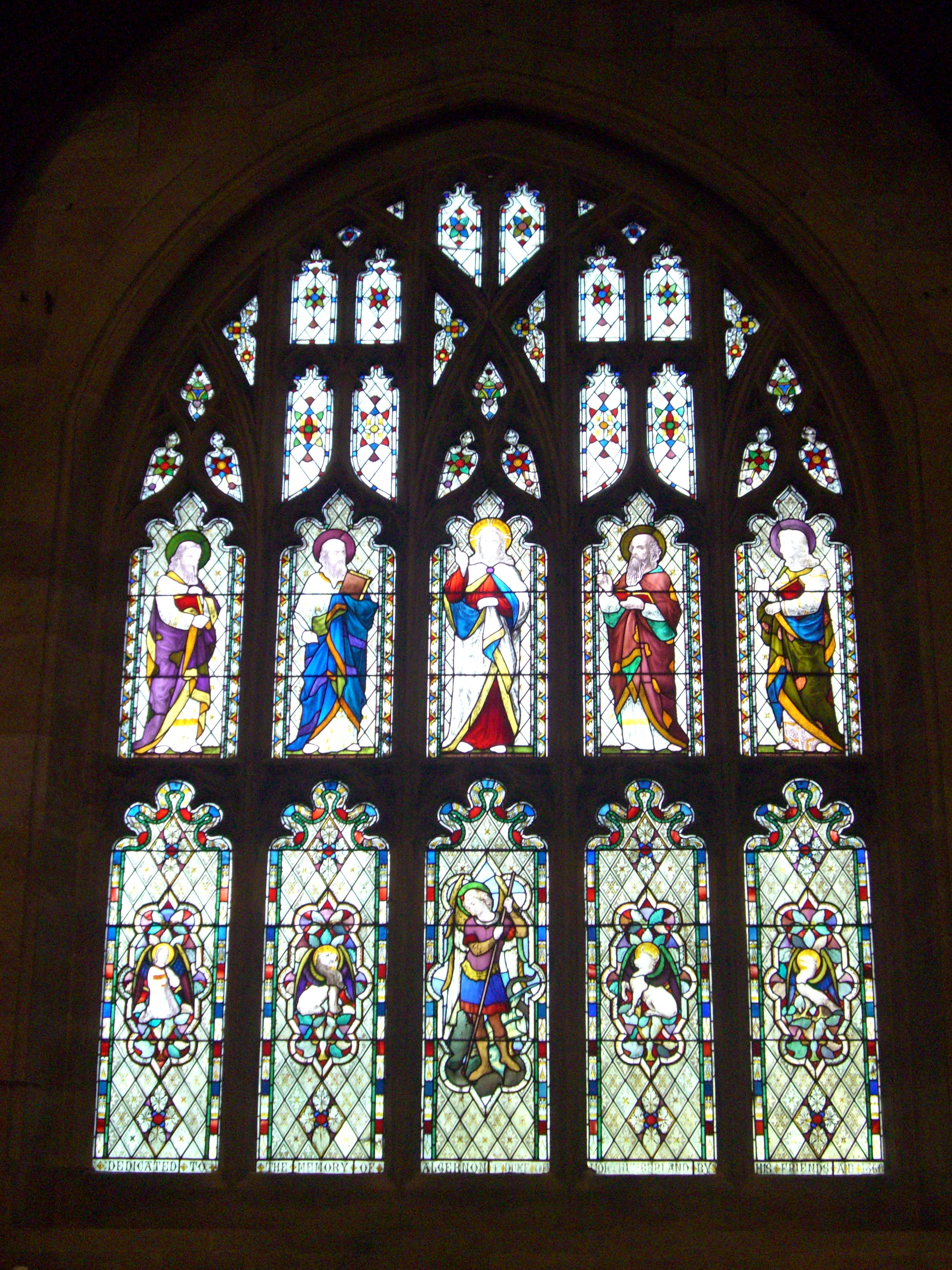 One of the east windows at St Michael's Church, Alnwick, England